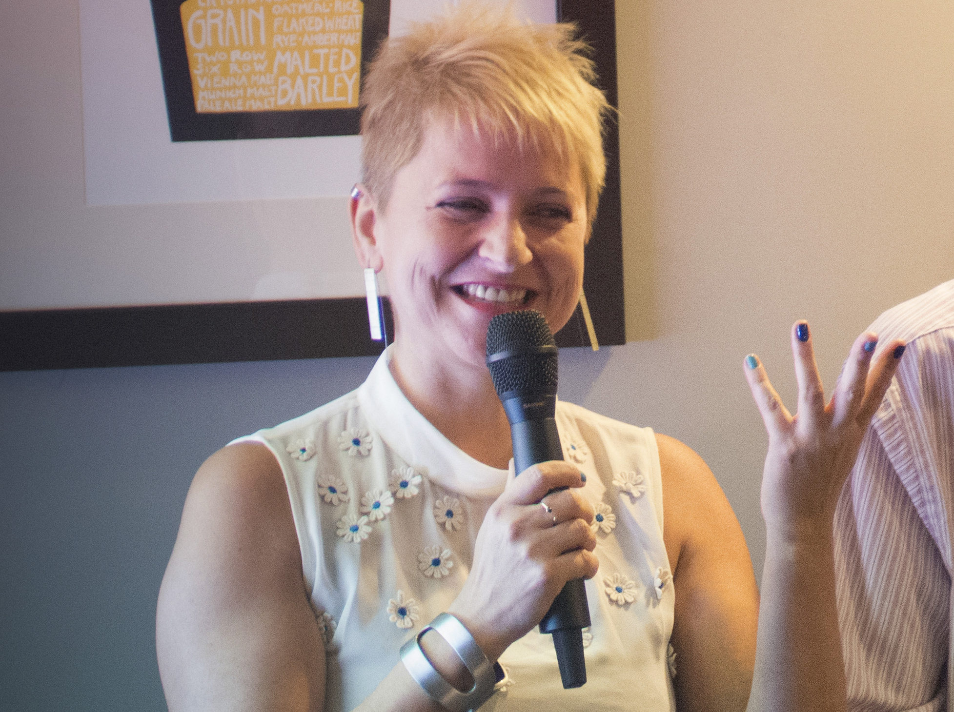 Ágnes Mócsy speaking at Brookhaven Lab's first PubSci event: "Big Bang Physics and the Building Blocks of Matter." Ágnes Mócsy, a theoretical physicist and tenured associate professor at Pratt Institute.